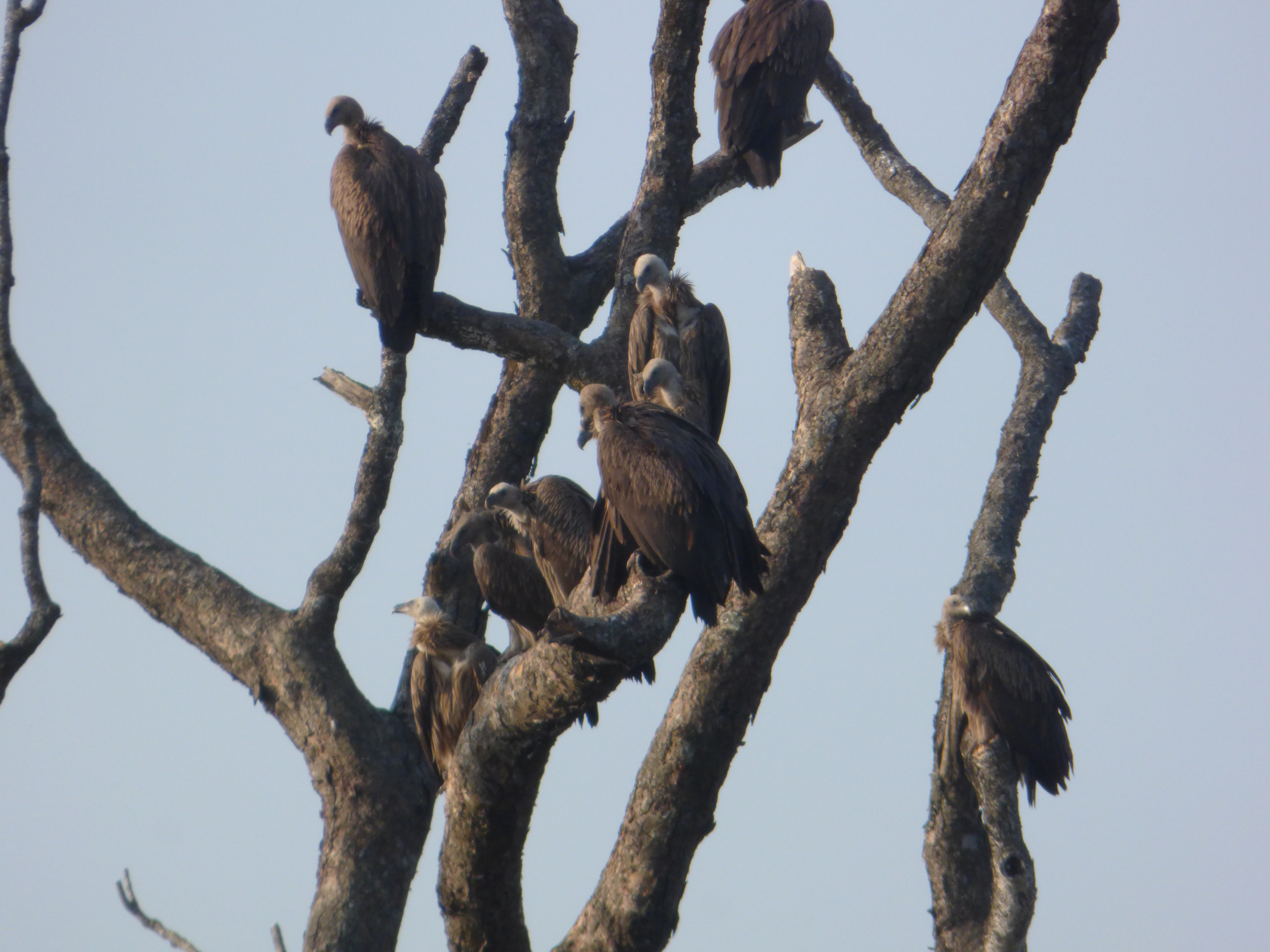 Himalayan Griffon perched on a dead tree in Mahananda Wildlife Sanctuary